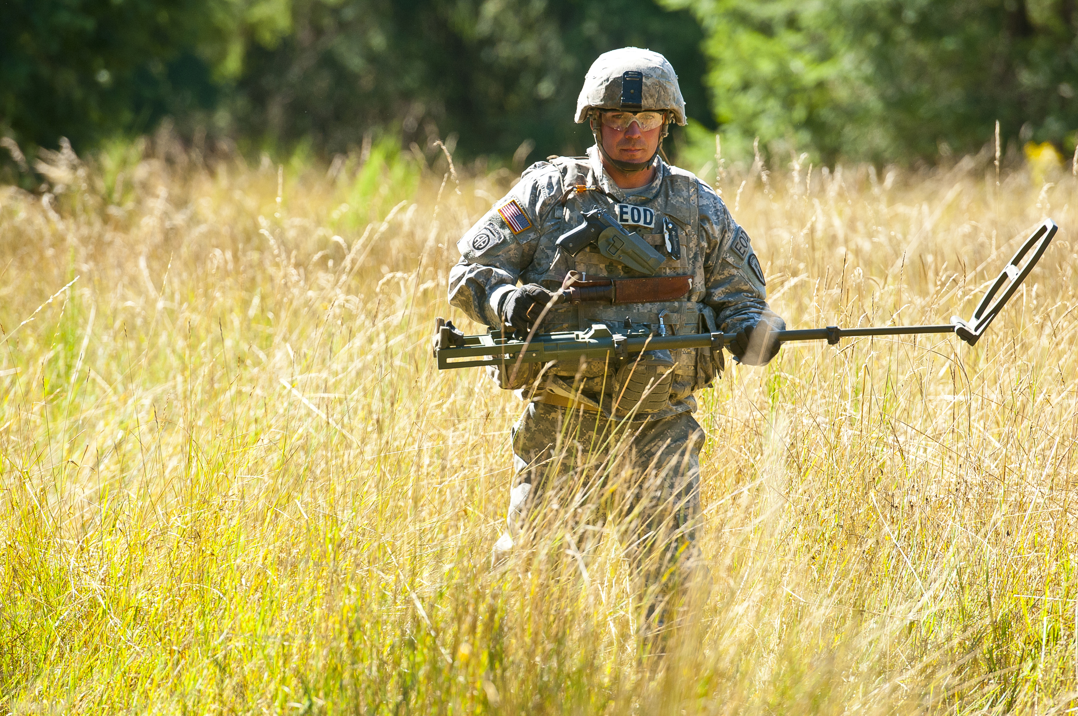 U.S. Army Staff Sgt. Clayton Clute, a team leader with the 710th Explosives Ordnance Disposal Company, searches for simulated pressure plate mines during a training exercise at Joint Base Lewis-McChord, Wash., Sept. 4, 2012.